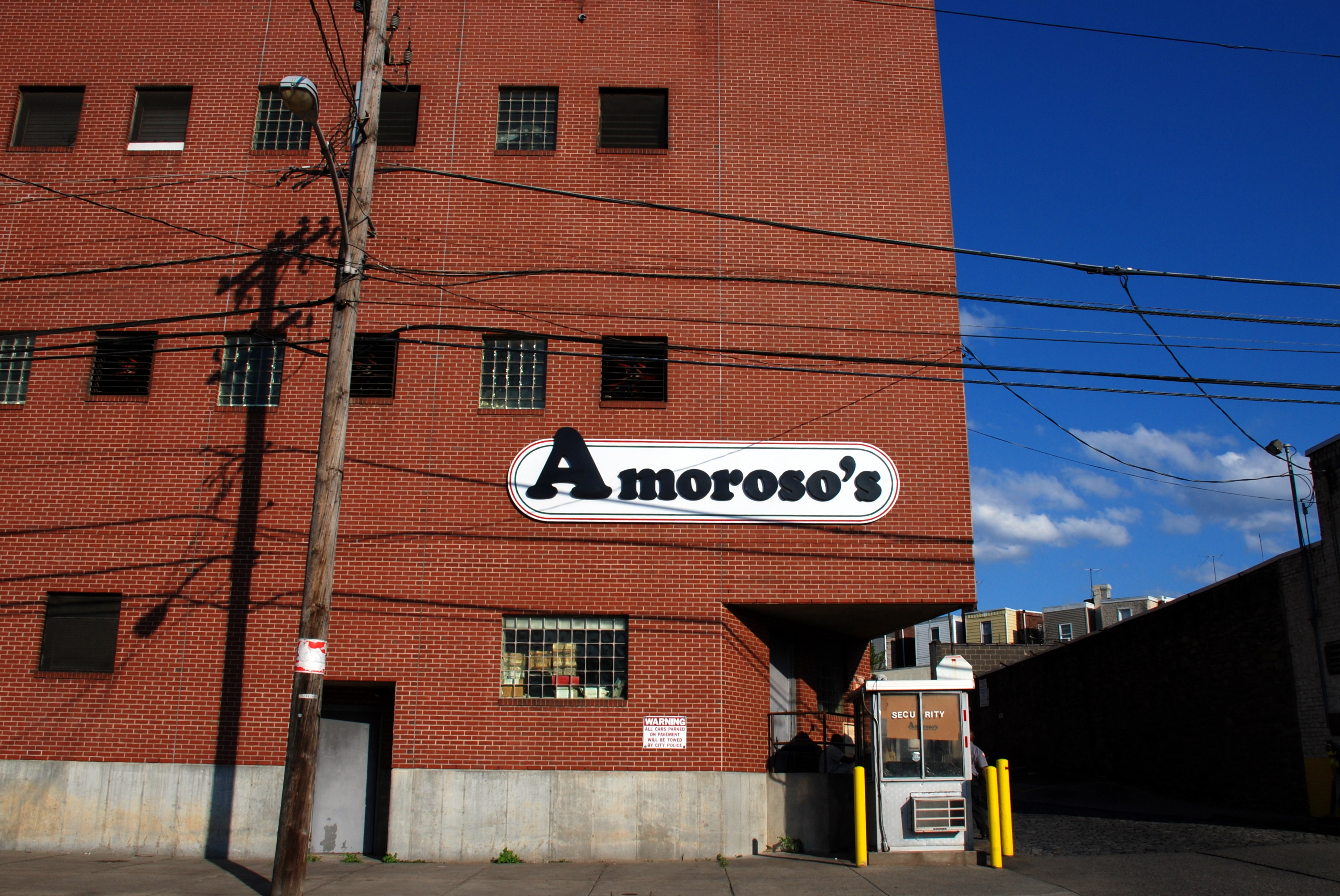 Amoroso's Baking Company, 845 S 55th St (55th and Baltimore)